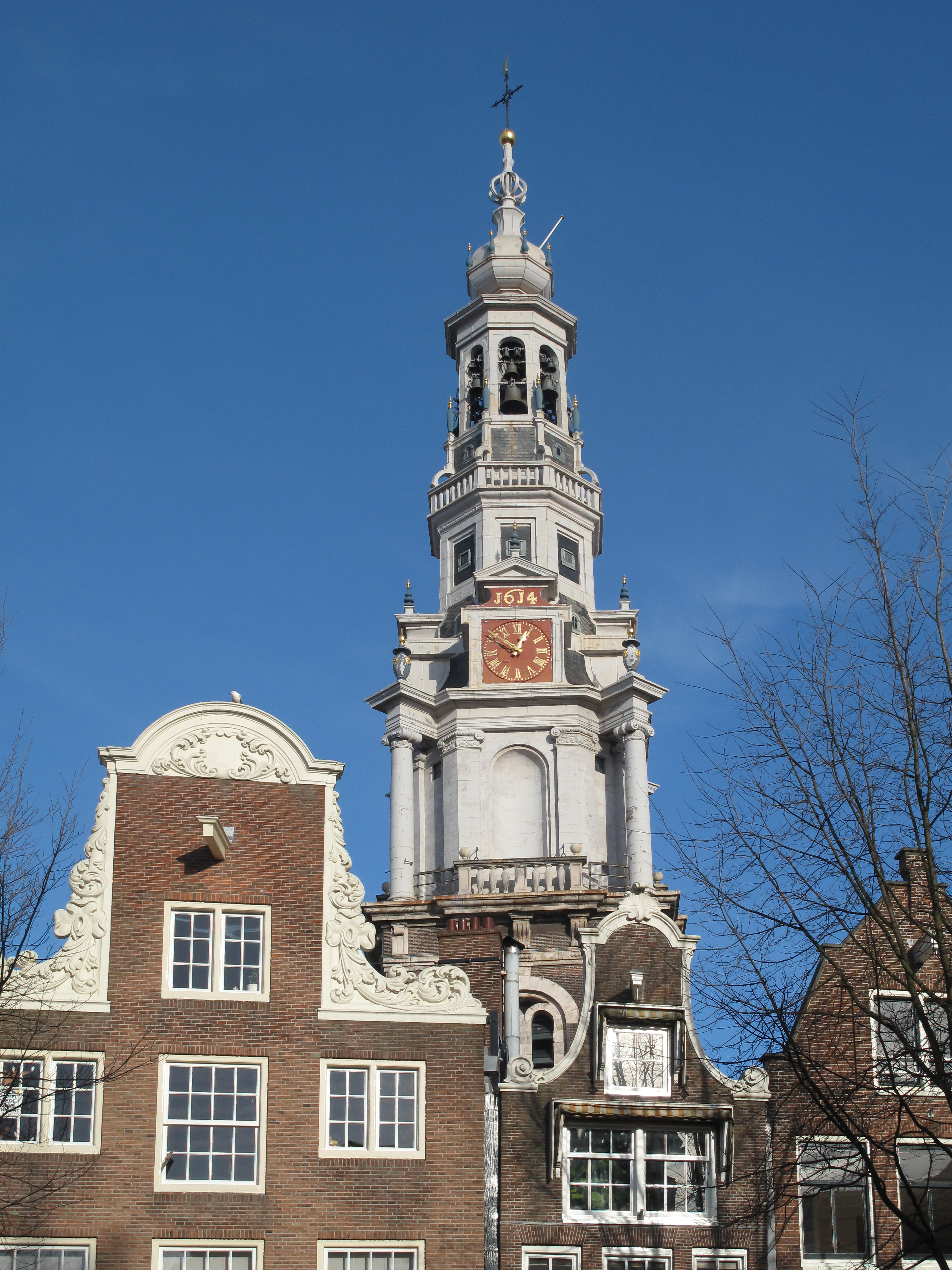 Amsterdam, churchtower (de Zuiderkerktoren)